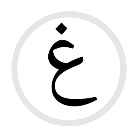 HS Letter (arabic alphabet)